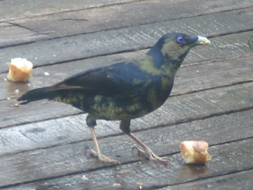 Changing from his young colouring to the adult satin black plumage. Ptilonorhynchus violaceus.